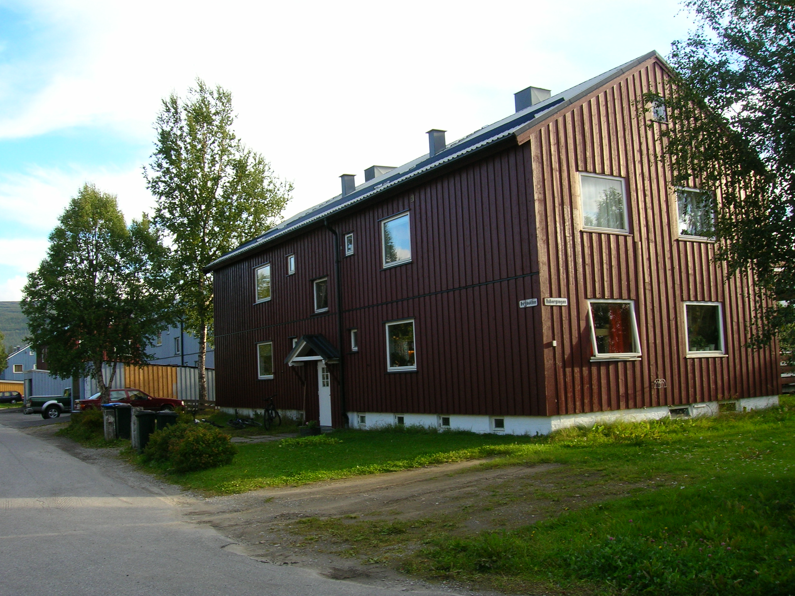 Selfors housing cooperative on Selfors, north of Mo i Rana, Rana municipality, county of Nordland, Norway, Photo 4 September, 2007 with a Nikon Coolpix 5600 5,1 Megapixel camera.